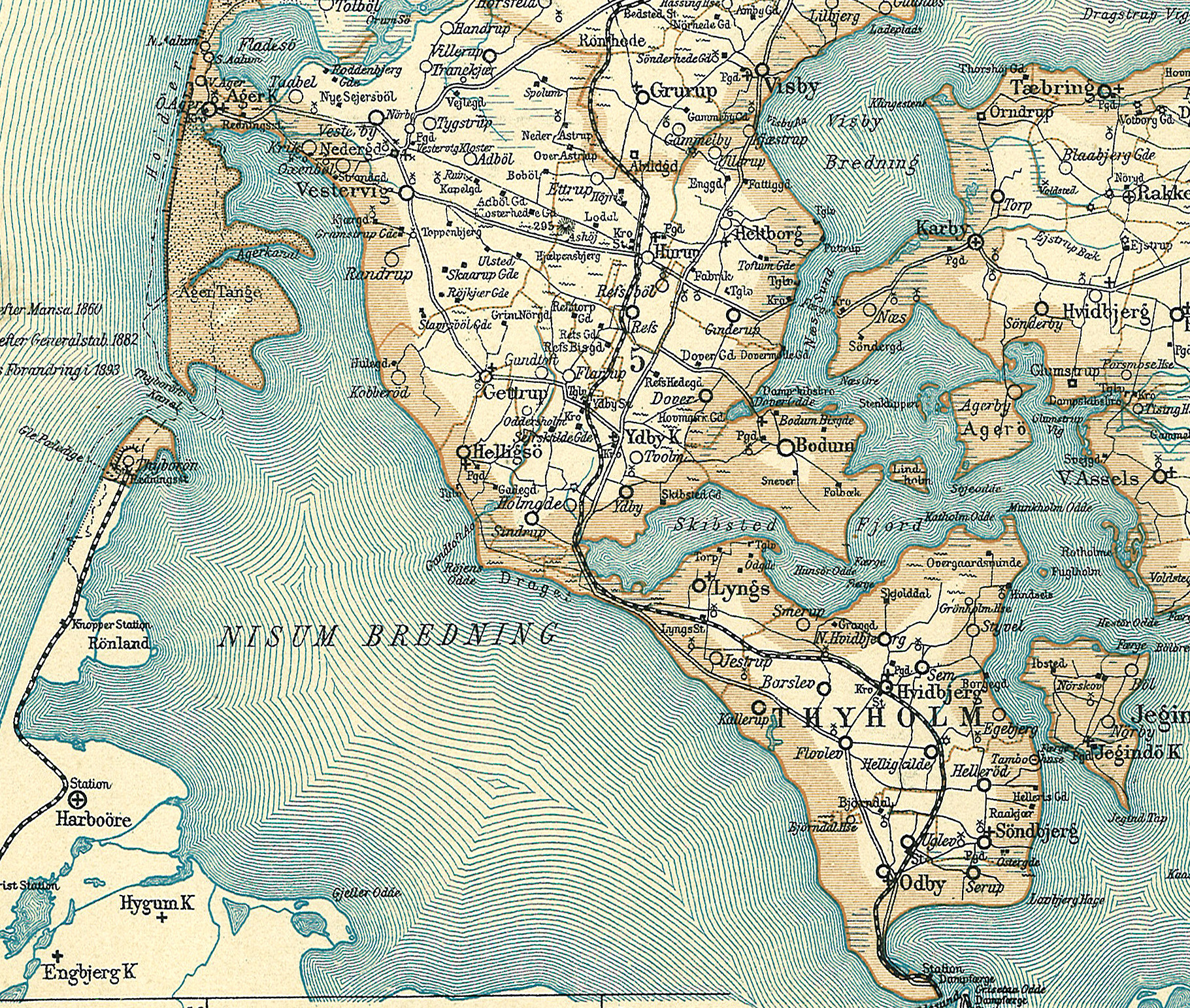 Map of Thisted County in Denmark